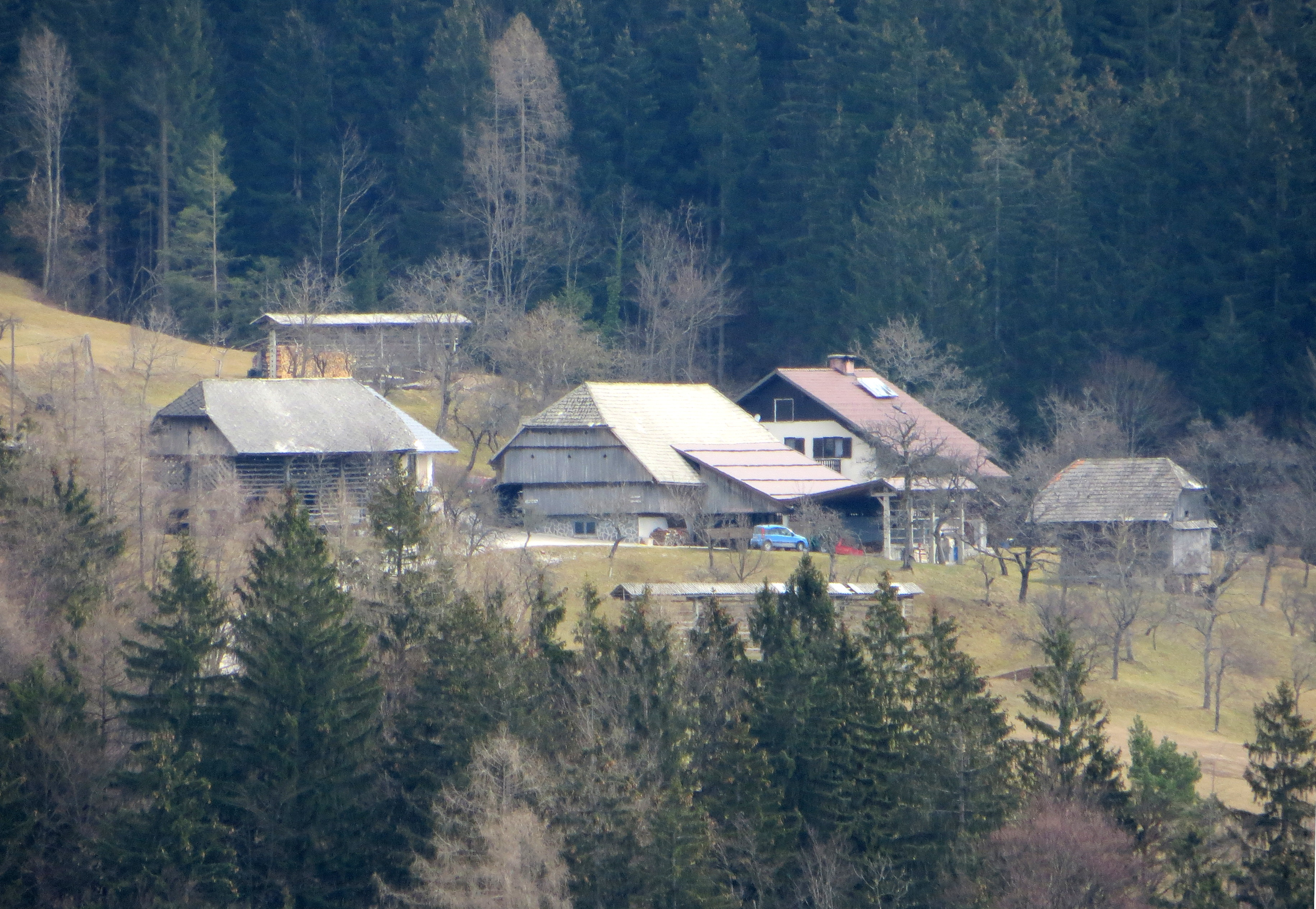 The hamlet of Osredkar in Bela Peč, Municipality of Kamnik, Slovenia